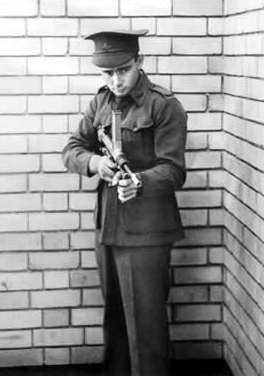 The inventor of the Owen submachine gun, NX22028 Private Evelyn Ernest Owen, 2/17 Battalion, of Wollongong, NSW, aiming an Owen Gun .45-inch or .45 ACP calibre.